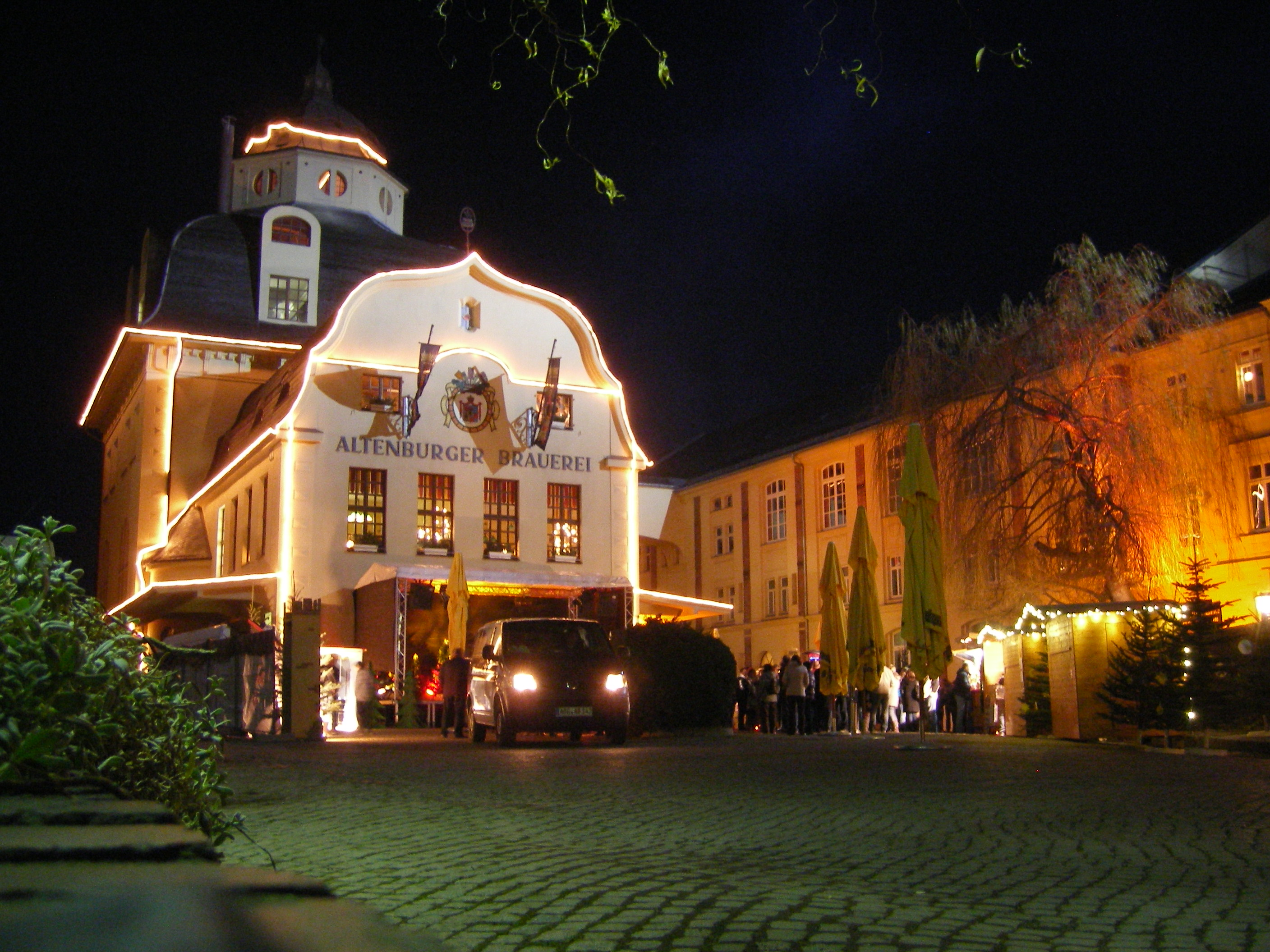 Christmas market in brewery of Altenburg/Thuringia (Germany)